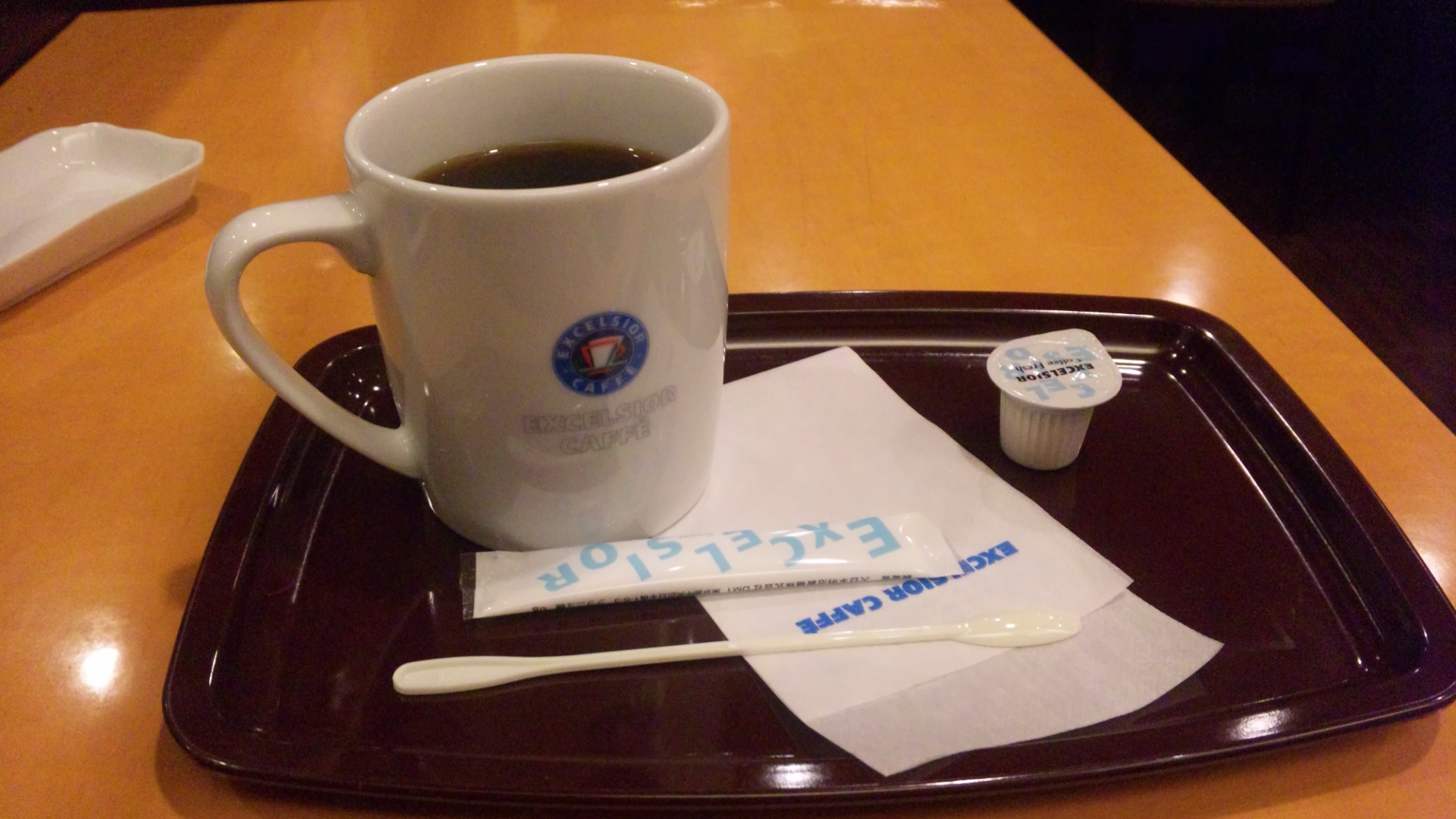 Excellcior Cafe Blendcoffee